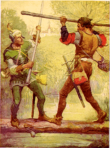 Robin Hood and Little John. From the cover and frontispiece of a 1921 edition (source, additional source) of the 1912 novel Bold Robin Hood and His Outlaw Band: Their Famous Exploits in Sherwood Forest, written and illustrated by Louis Rhead.